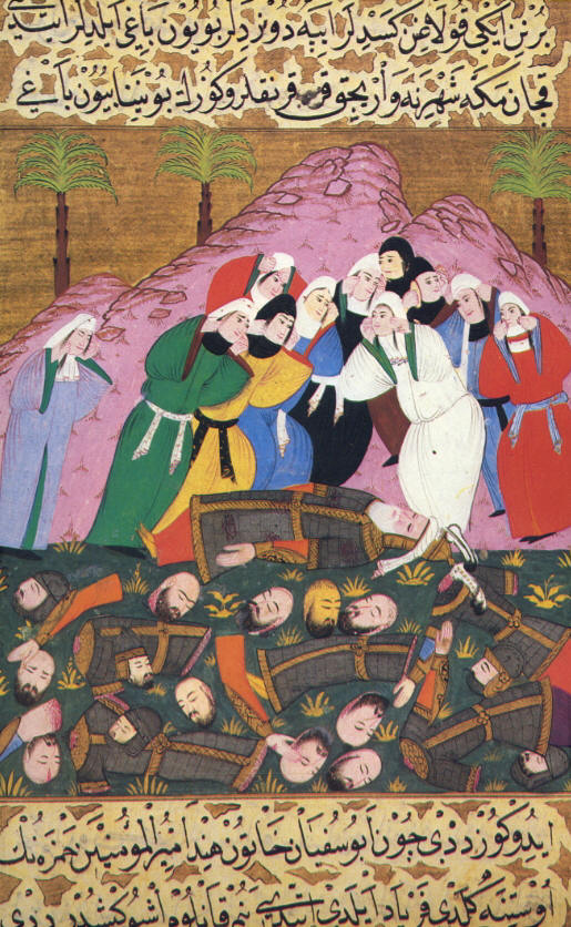 Siyer-I Nebi or Life of the Prophet